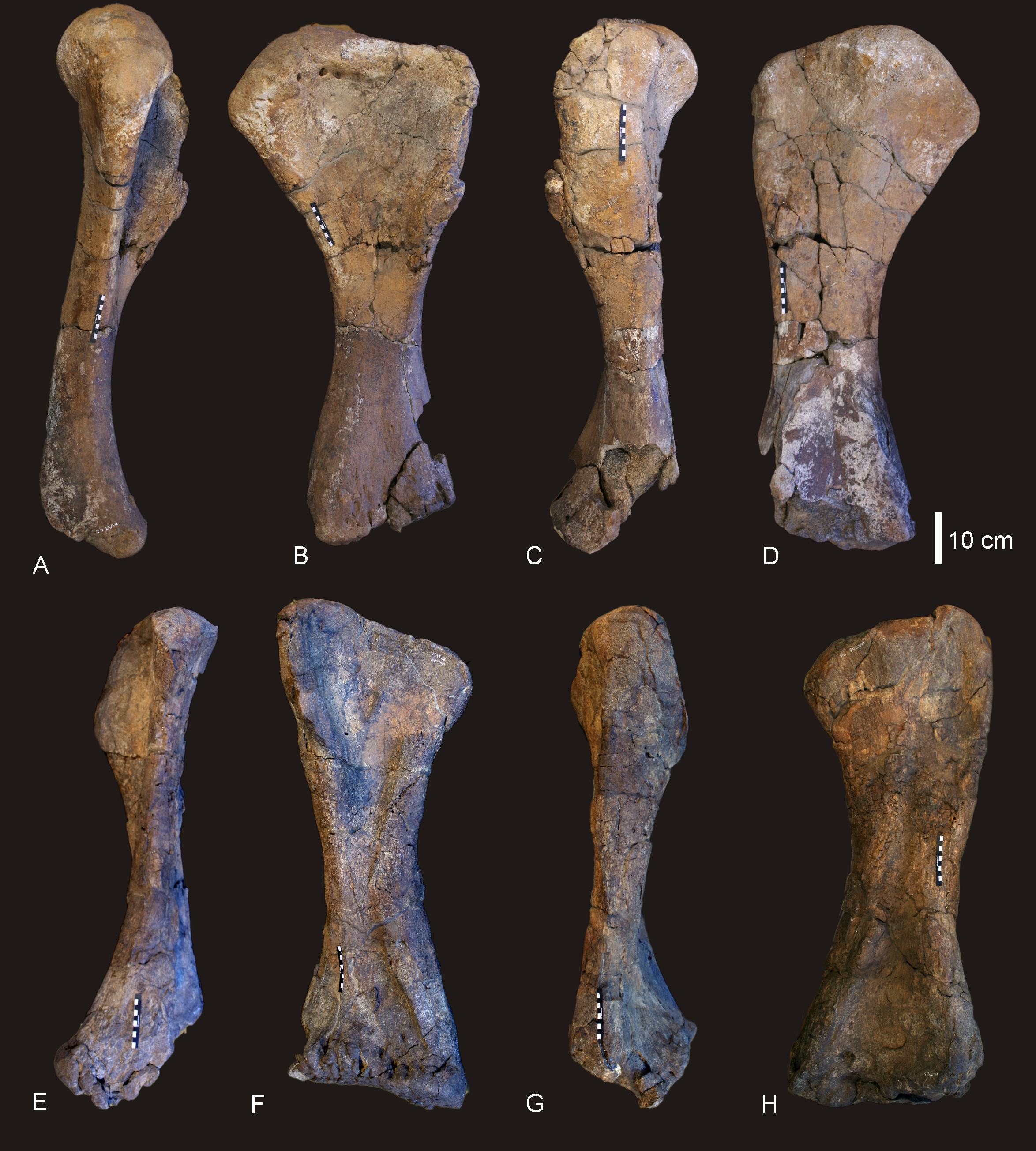 Humeri of Diamantinasaurus matildae. Left humerus in medial (A), anterior (B), lateral (C) and posterior (D). Right humerus in lateral (E), anterior (F), medial (G) and posterior (H).